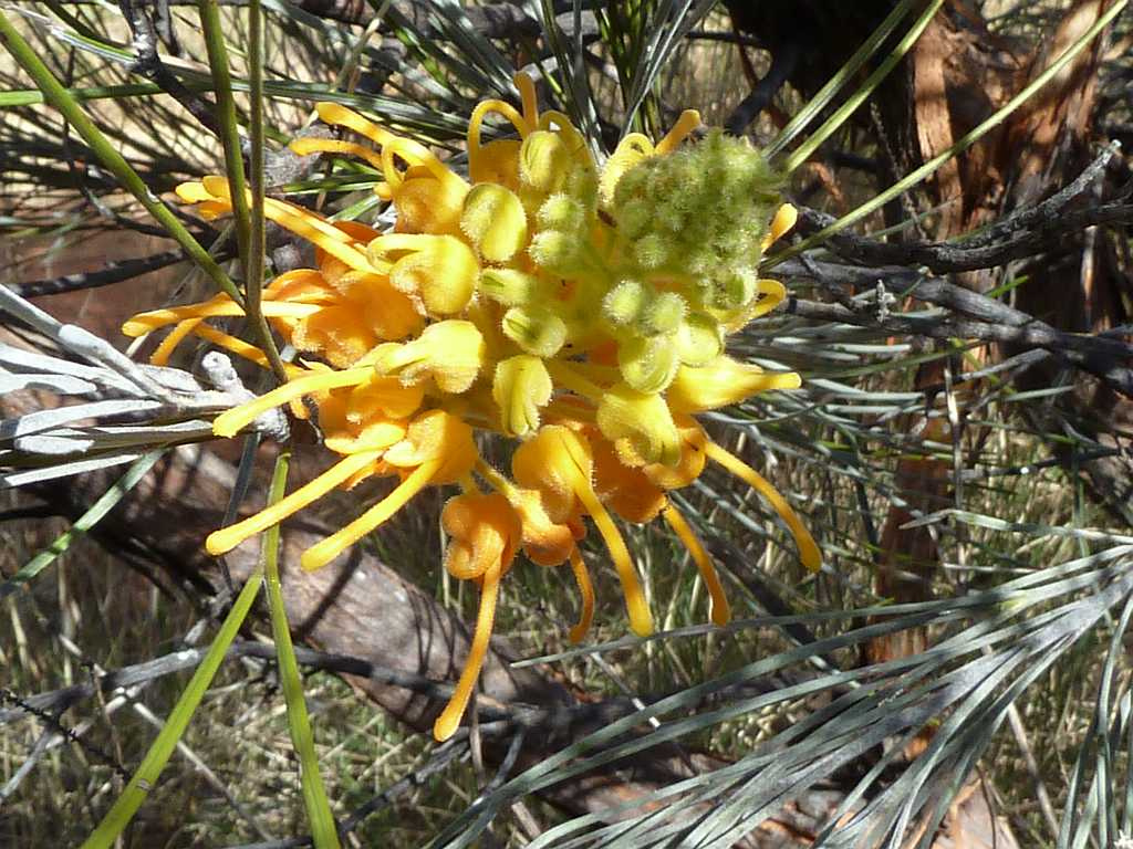 Day 6 - Photo 19: Grevillea juncifolia